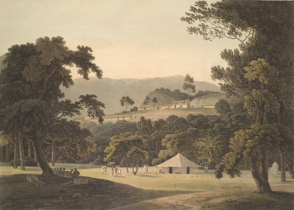 Kotdwar Ghat (Hills), Uttarakhand, 1784-94.